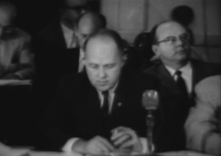 Newburgh, New York, city manager Joseph Mitchell, at a Newburgh city council meeting.